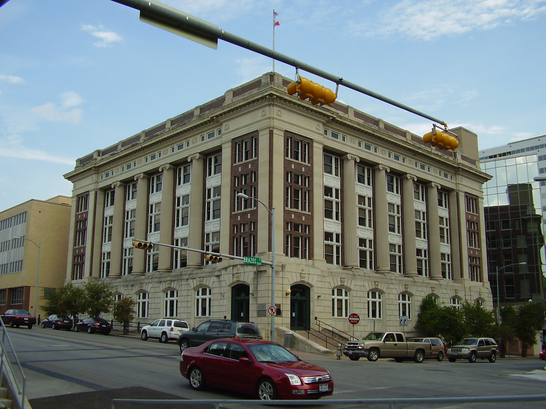 James Earl Rudder State Office Building [1] - has the Secretary of State of Texas offices